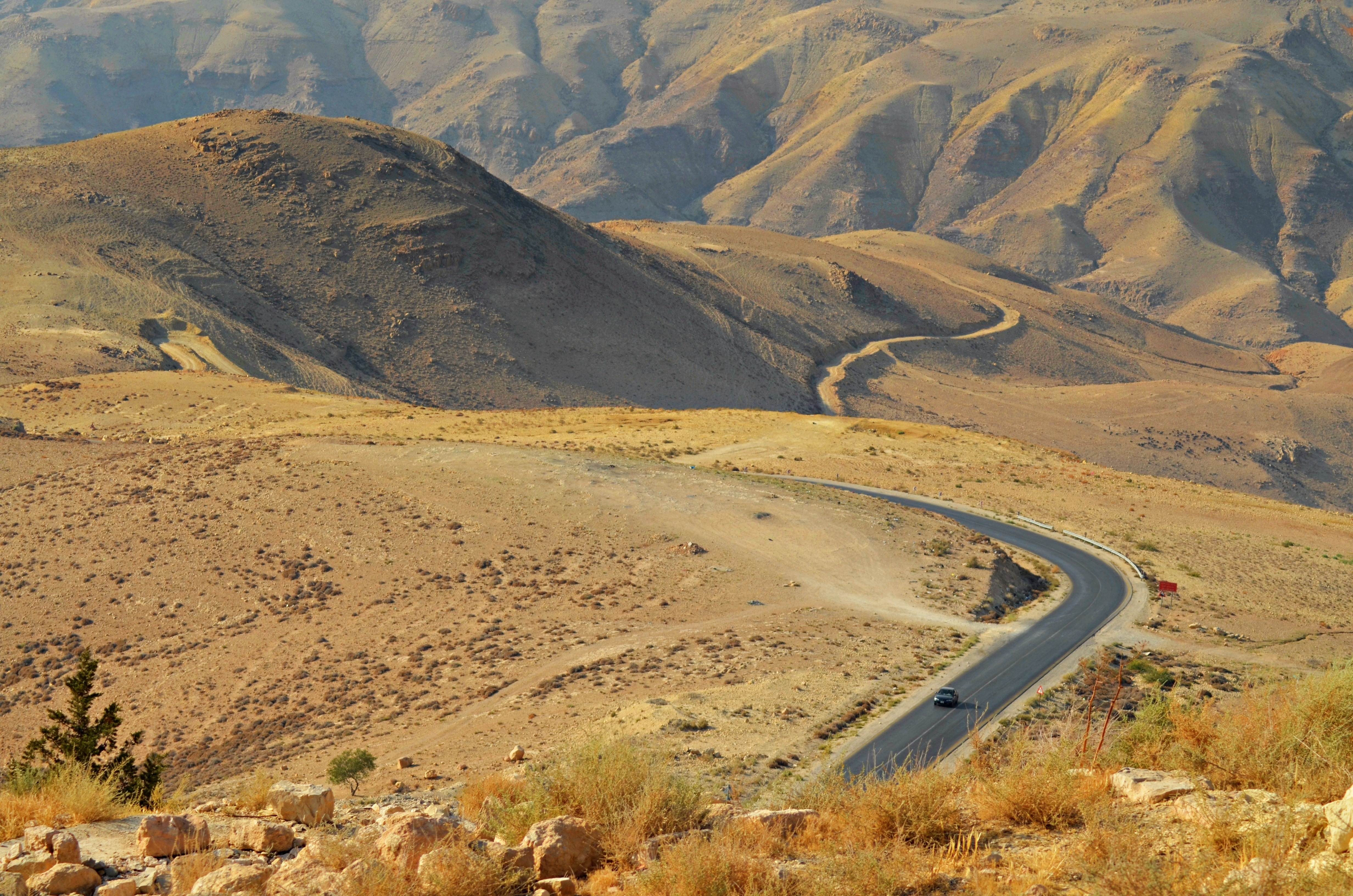 From Mount Nebo, Madaba, Madaba Governorate, Jordan.